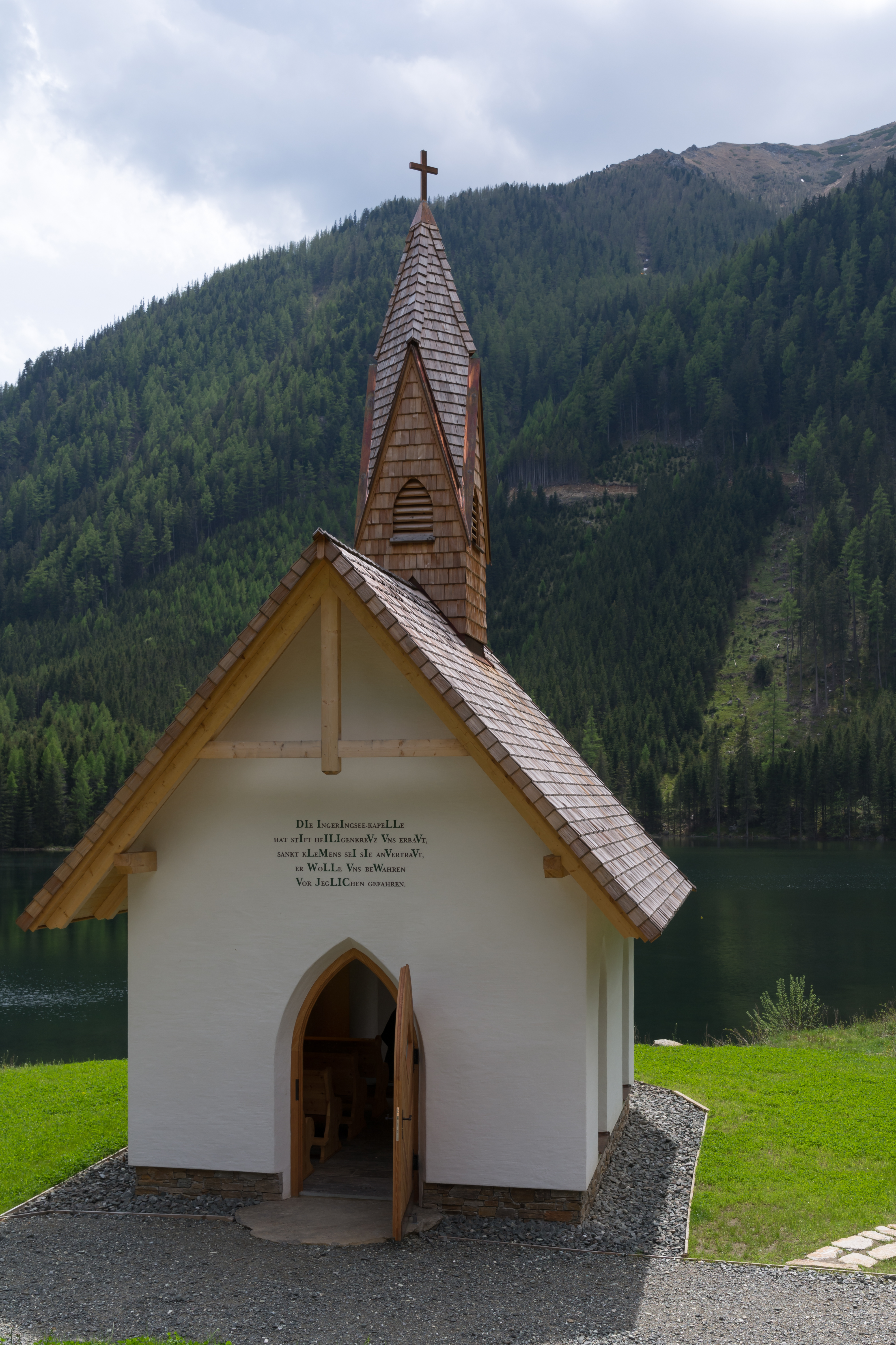 Chapel of Saint Clement of Rome (consecrated in 2015) at lake Ingeringsee near Gaal, Styria, Austria